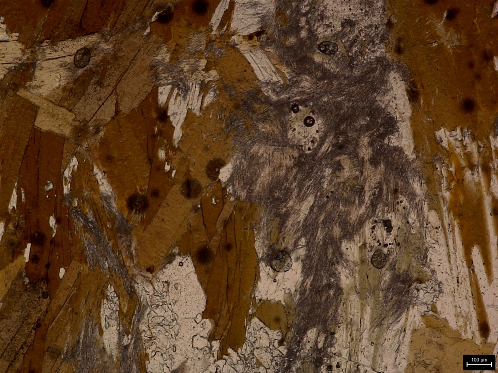 Plane polarized light photomicrograph showing Sillimanite surrounded by biotite and muscovite. CC-1 Cooma Granodiorite, Australia.